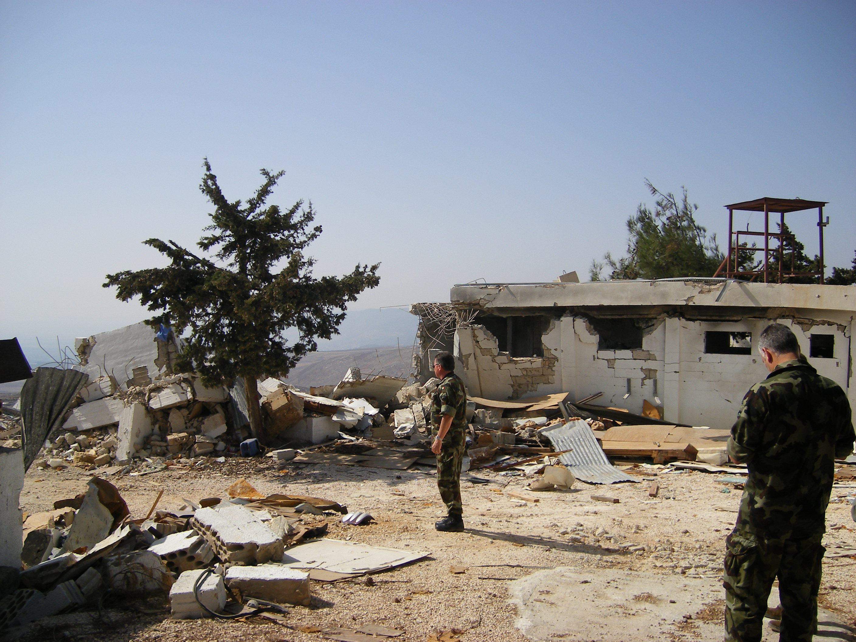 What's left of the destroyed UN base.